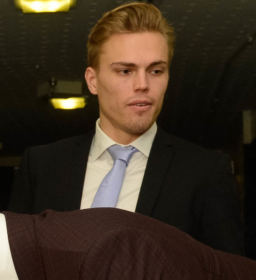 (Lindsay A. Mogle / AHL)